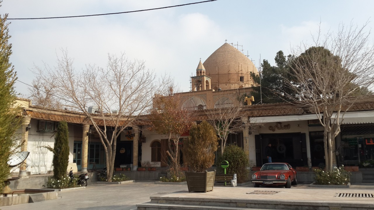 Jolfa St. Mary Church